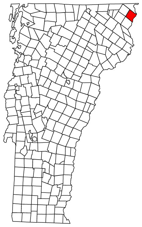 Description: Map of Vermont towns with Lemington highlighted Source: Map created by Jared C. Benedict on 26 March 2004. Copyright: © Jared C. Benedict.